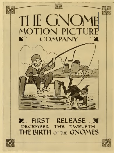 A full page ad by the Gnome Motion Picture Company. The ad announces The Birth of the Gnomes. The animated film never saw an actual release.